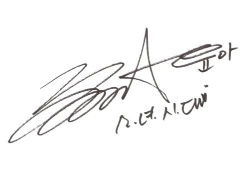 The signature of South Korean recording artist Yoona, member of girl group Girls' Generation